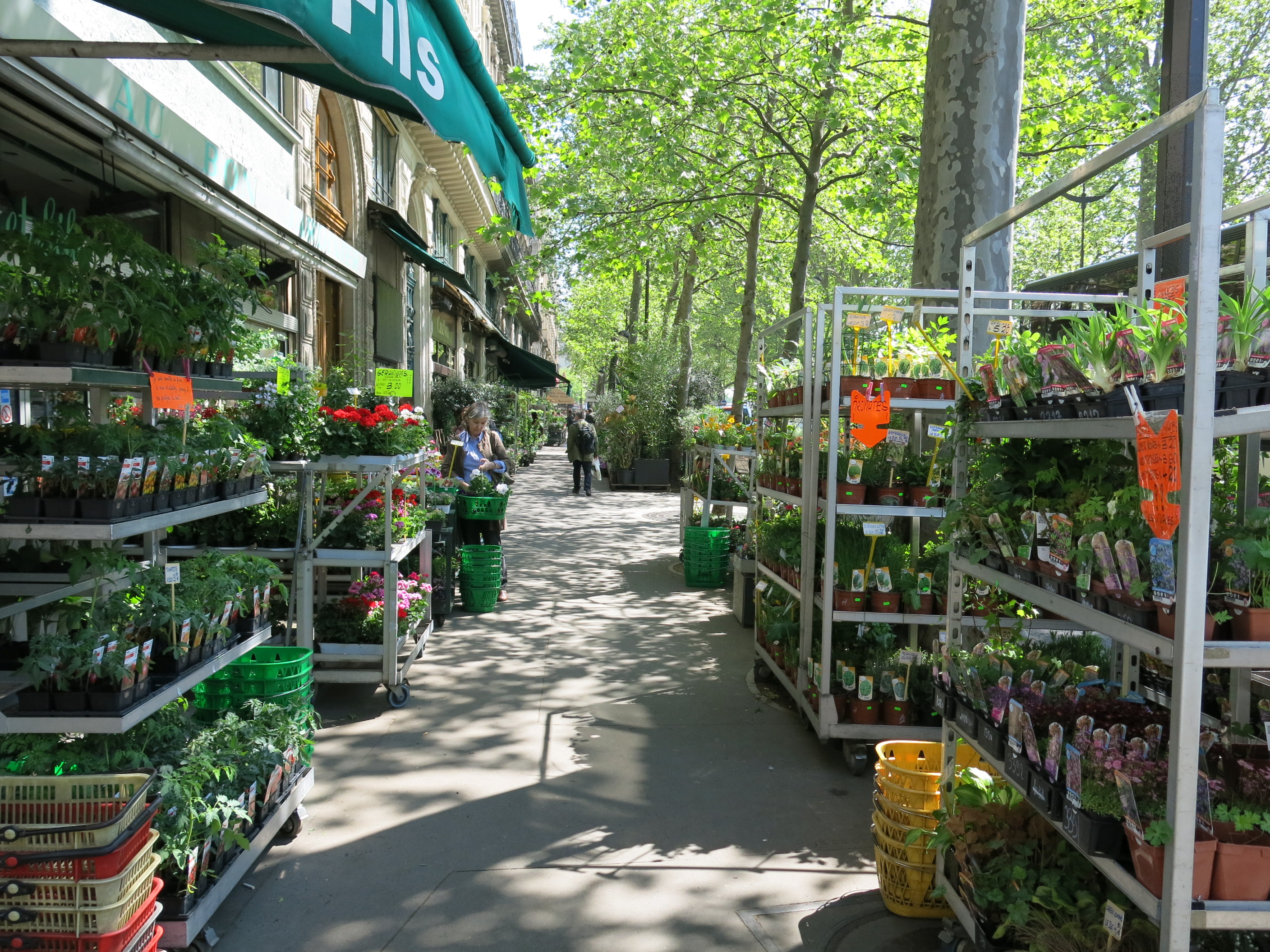 Quai de la Mégisserie, Paris 1st arrond. (France).